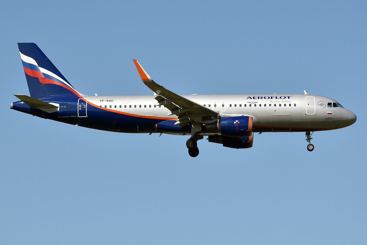 Aeroflot, VP-BAD, Airbus A320-214